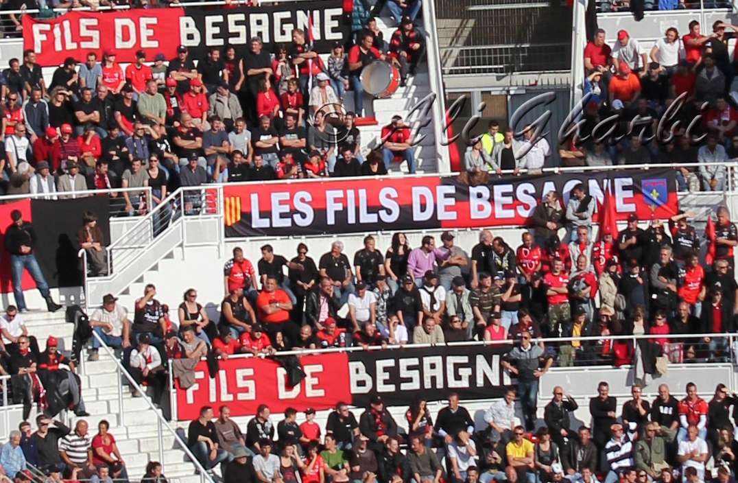 RCT - ¨Perpignan